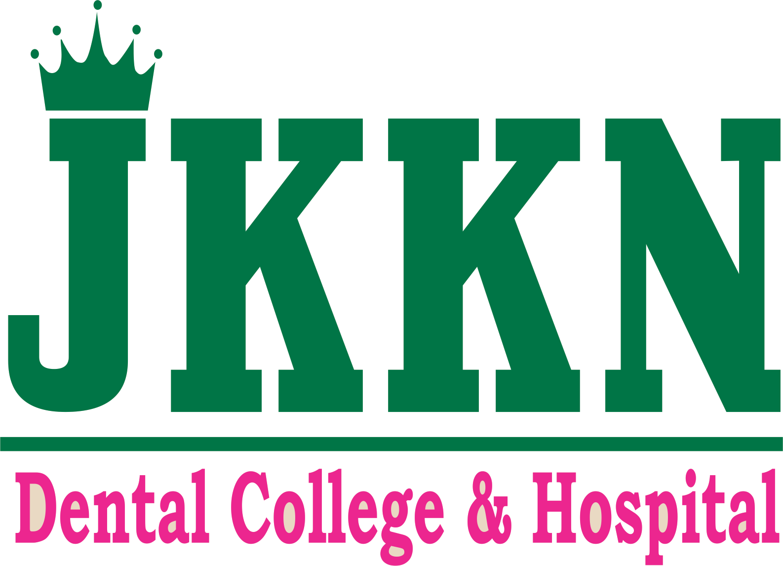 It is logo of J.K.K.Nattraja Dental College and Hospital